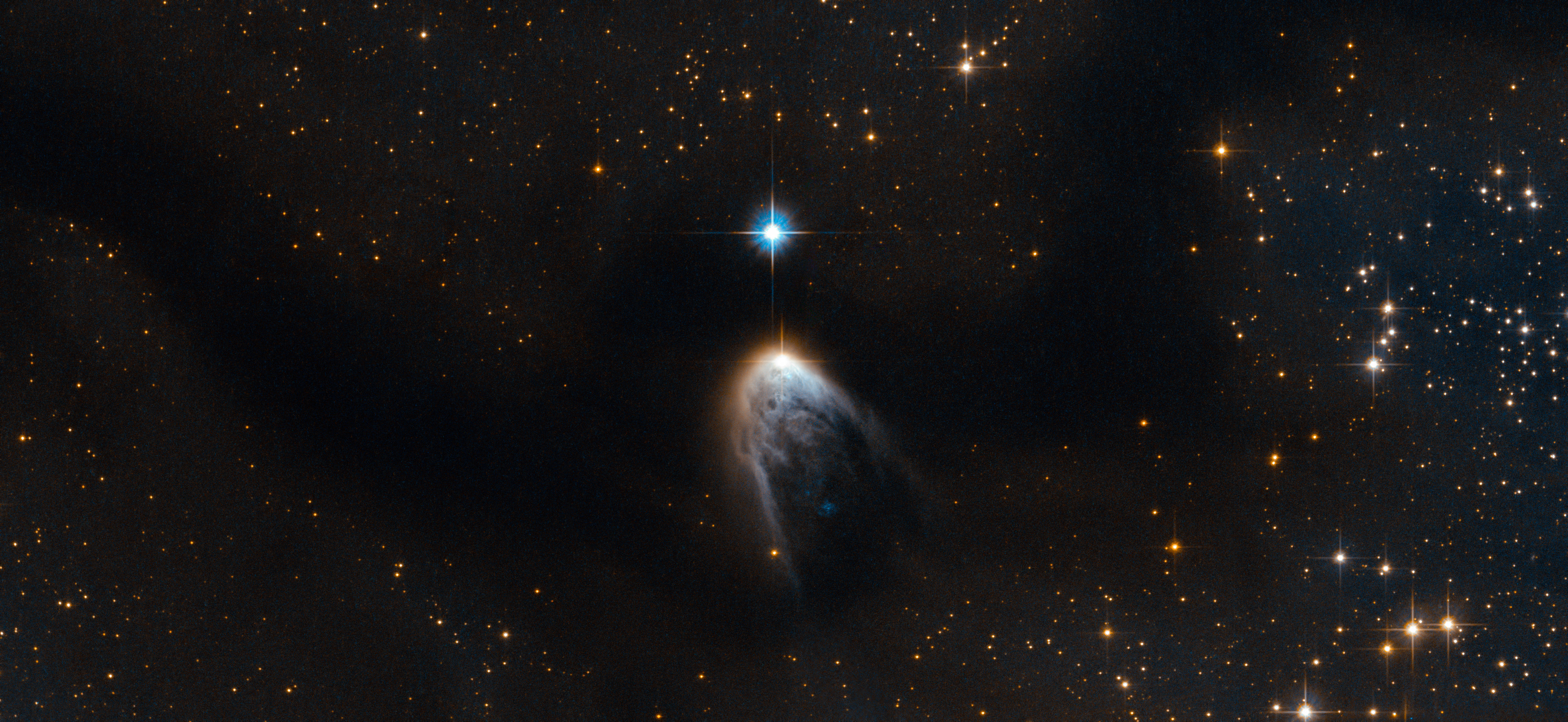 This new Hubble image shows IRAS 14568-6304, a young star that is cloaked in a haze of golden gas and dust. It appears to be embedded within an intriguing swoosh of dark sky, which curves through the image and obscures the sky behind. This dark region is known as the Circinus molecular cloud. This cloud has a mass around 250 000 times that of the Sun, and it is filled with gas, dust and young stars. Within this cloud lie two prominent and enormous regions known colloquially to astronomers as Circinus-West and Circinus-East. Each of these clumps has a mass of around 5000 times that of the Sun, making them the most prominent star-forming sites in the Circinus cloud. The clumps are associated with a number of young stellar objects, and IRAS 14568-6304, featured here under a blurry fog of gas within Circinus-West, is one of them. IRAS 14568-6304 is special because it is driving a protostellar jet, which appears here as the "tail" below the star. This jet is the leftover gas and dust that the star took from its parent cloud in order to form. While most of this material forms the star and its accretion disc — the disc of material surrounding the star, which may one day form planets — at some point in the formation process the star began to eject some of the material at supersonic speeds through space. This phenomenon is not only beautiful, but can also provide us with valuable clues about the process of star formation. IRAS 14568-6304 is one of several outflow sources in the Circinus-West clump. Together, these sources make up one of the brightest, most massive, and most energetic outflows ever reported. Scientists have even suggested calling Circinus-West the "nest of molecular outflows" in tribute to this activity. A version of this image was entered into the Hubble's Hidden Treasures image processing competition by contestant Serge Meunier.